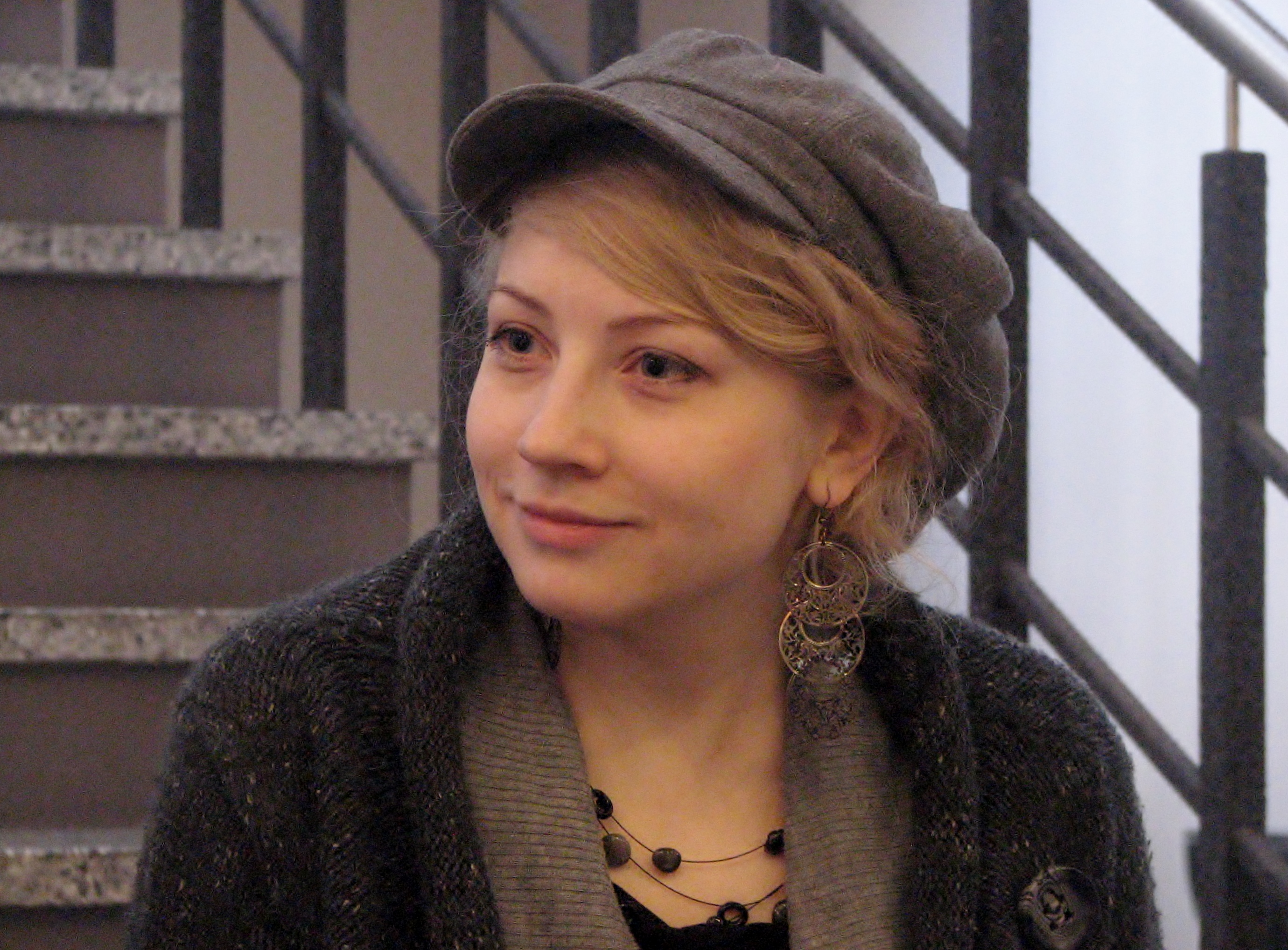 Estonian poet Maria Lee Liivak performing in Central Library of Tallinn during World Poetry Day